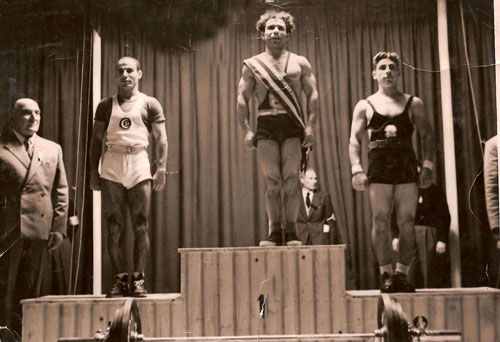 Mahmoud Namjoo, 1949 World Weightlifting Championship podium, Scheveningen, Netherlands